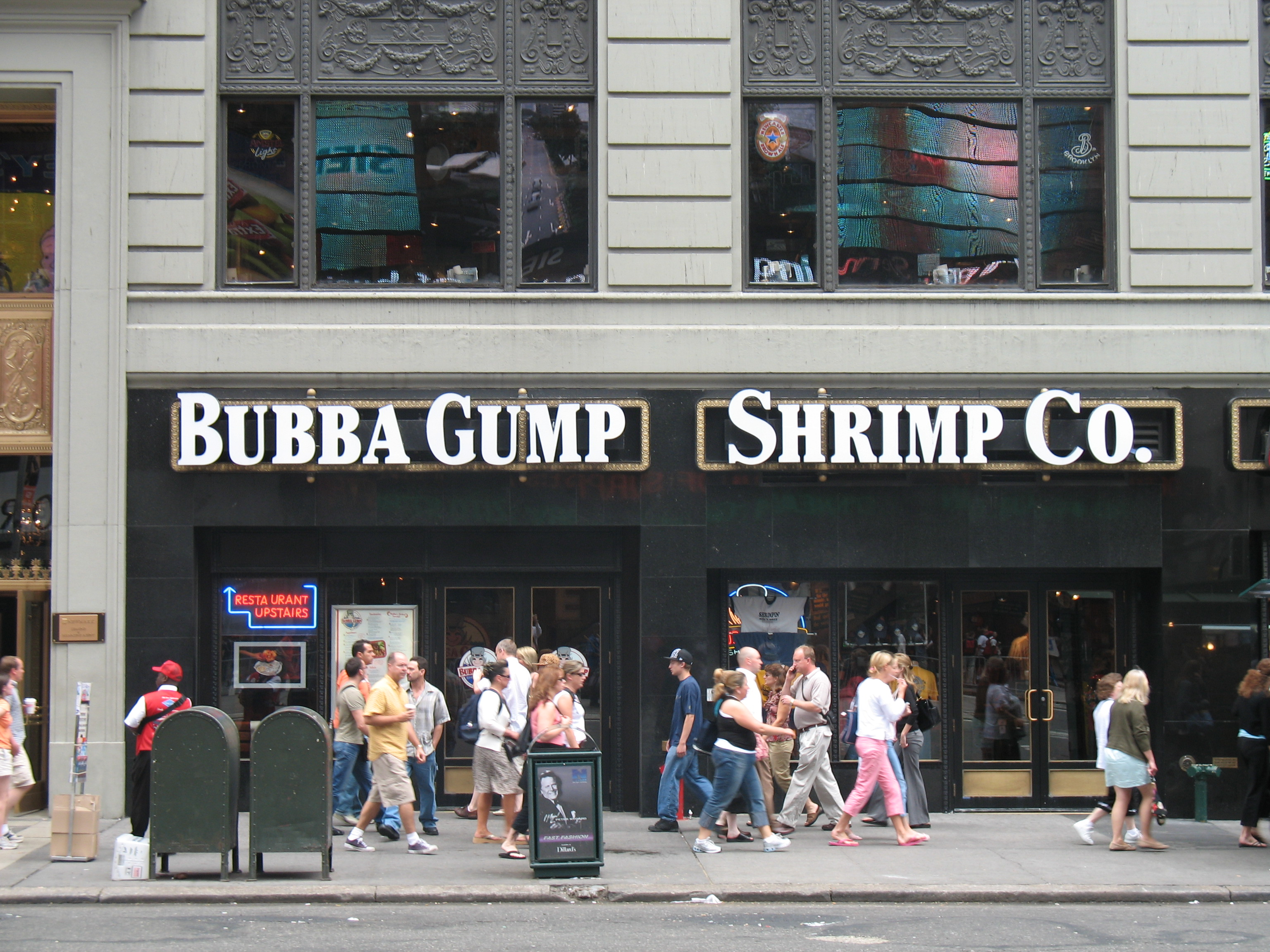 Bubba Gump Shrimp Company. Times Square, New York.